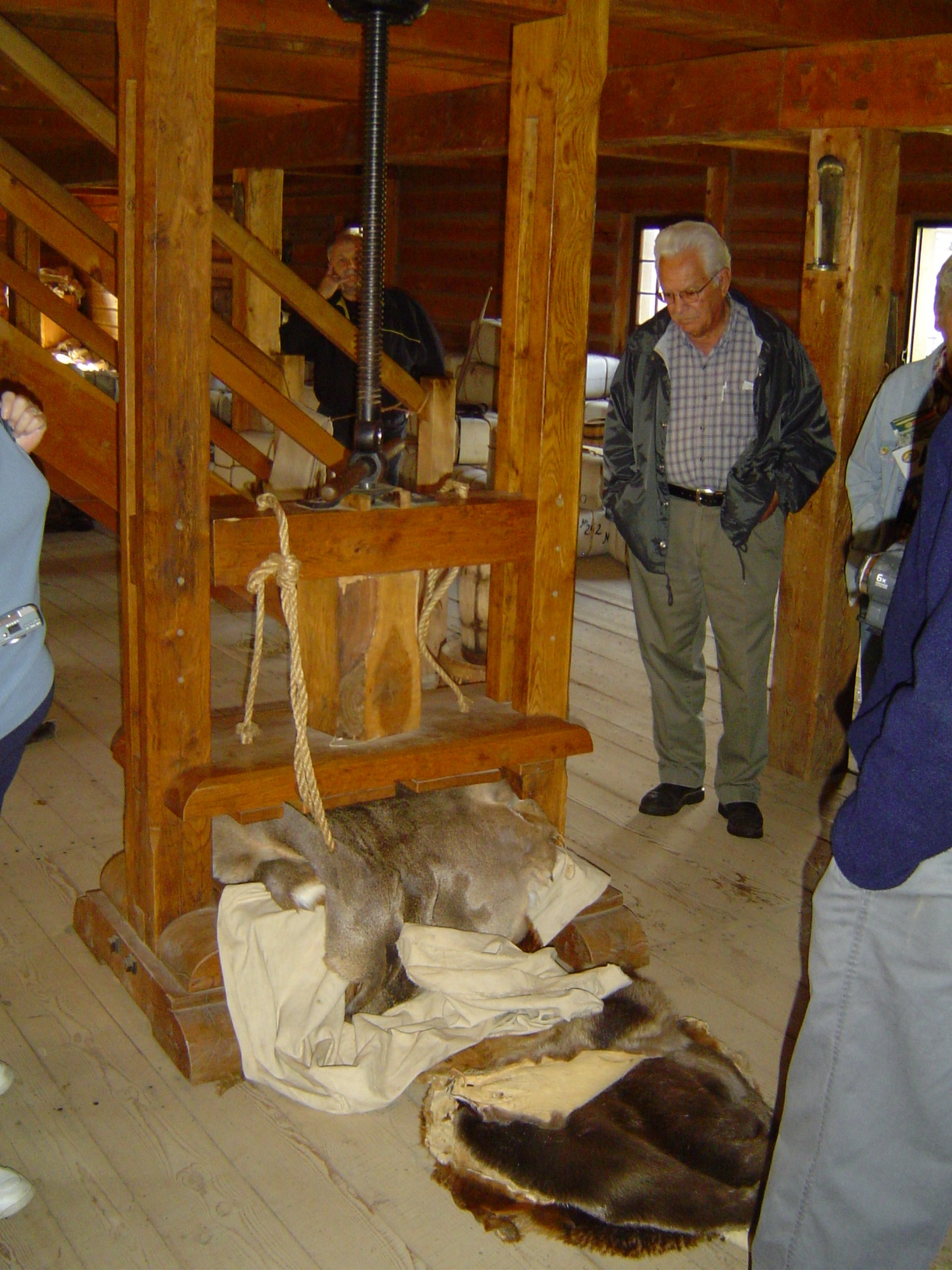 The Fur Screw Press was used to compact 90 pounds of furs into manageable packs for shipping.